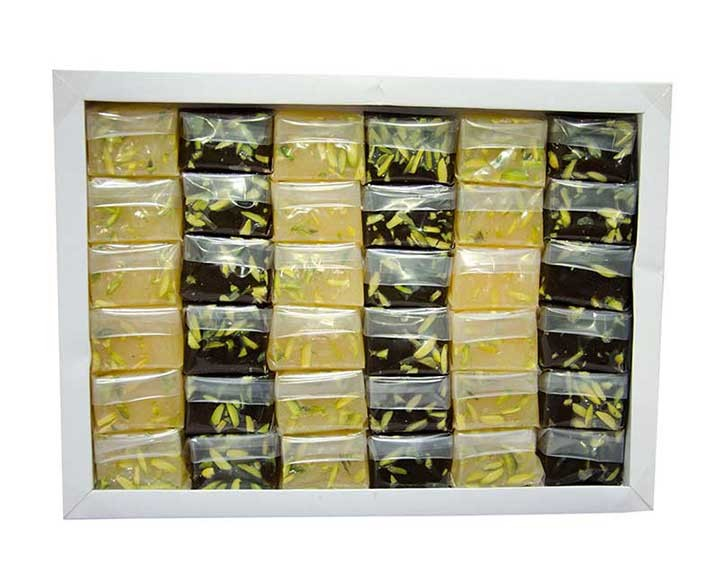 It is a box Eris with two flavors: cacao and bare.